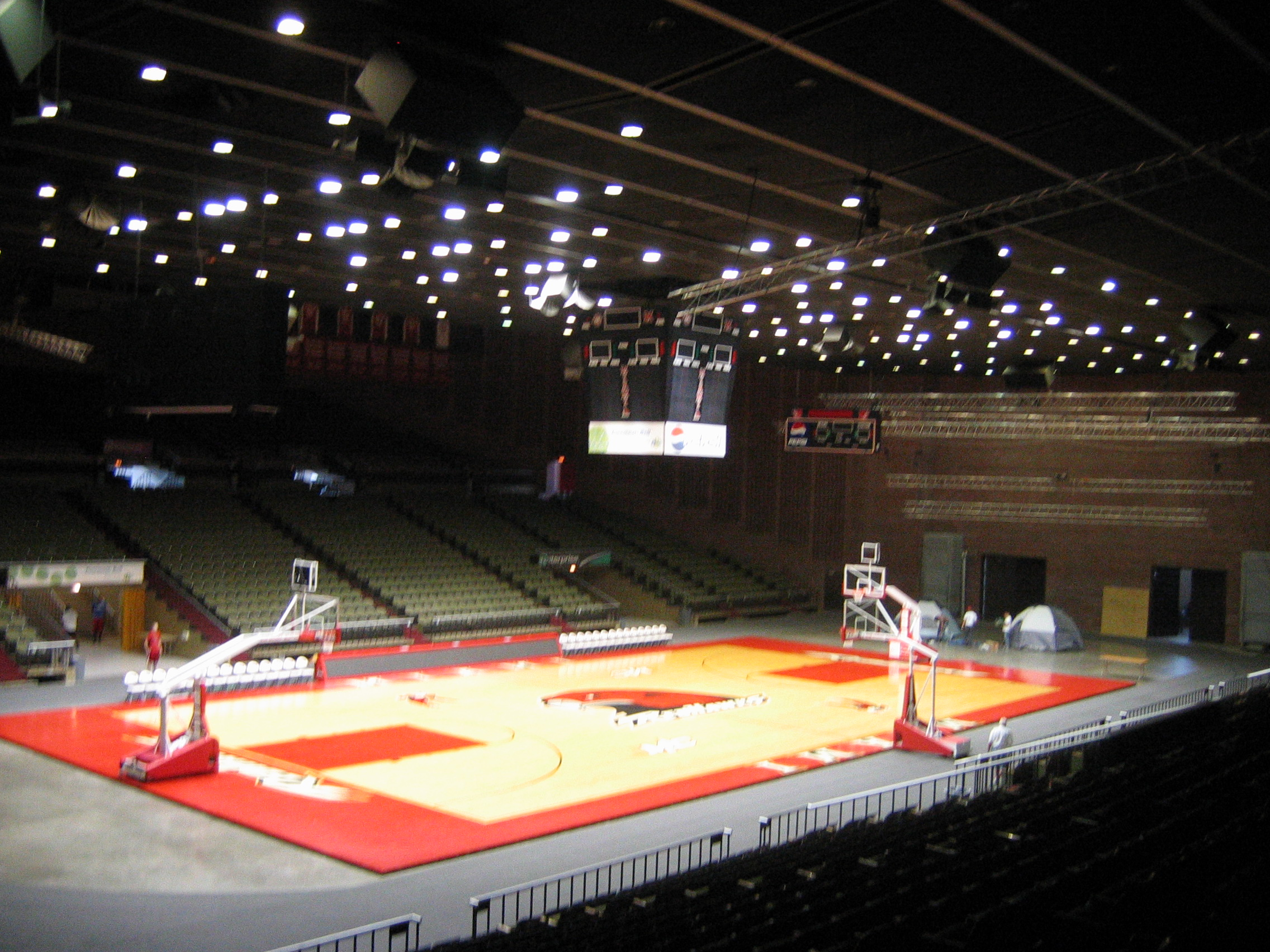 Football & Basketball Facilities Miami-OH U Basketball Arena